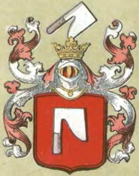 Topór coat of arms by Zbigniew Leszczyc, 1908